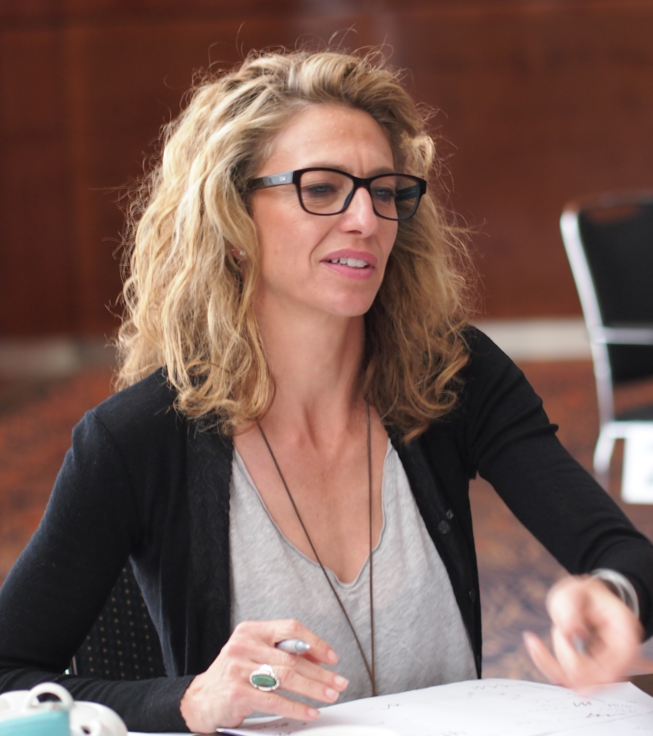 Claudia Black